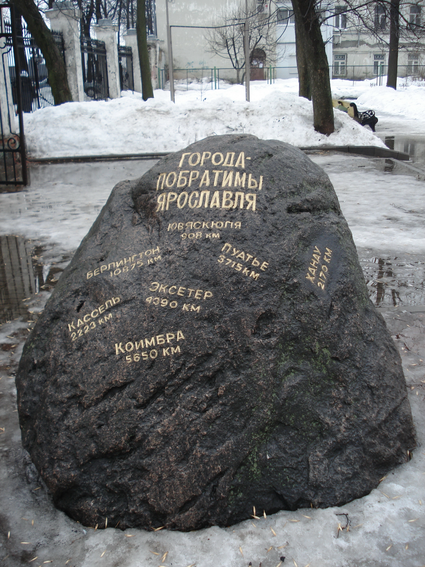 Memorial sign sister-city of Yaroslavl